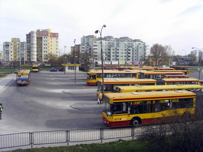 Jelcz M181M low entry bus (#7871, reg. WI 56175) and other in Warsaw, Poland. Built 1998, MZA Warszawa operator.